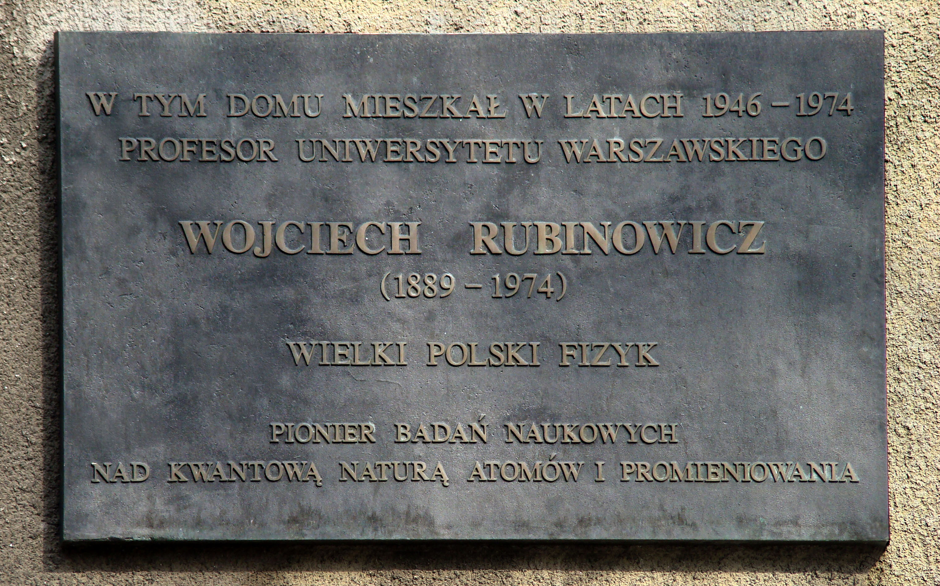 Commemorative plate of Professor Wojciech Rubinowicz, Hoża 74